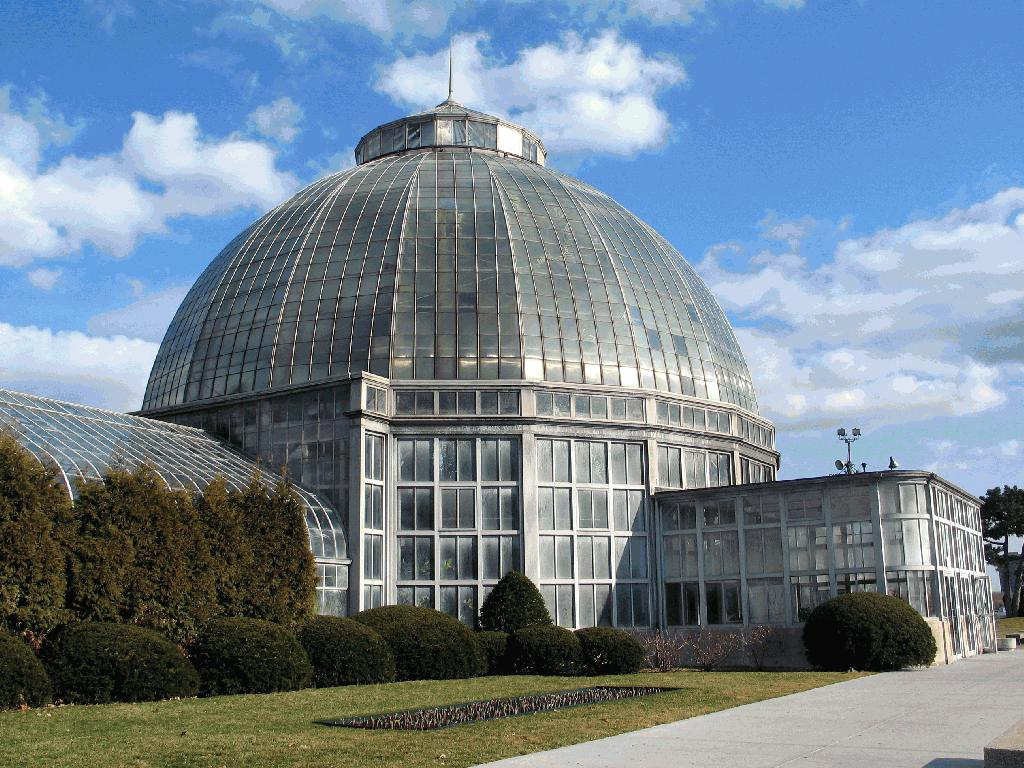 Anna Scripps Whitcomb Conservatory (greenhouse) on Belle Isle in Detroit, Michigan. This building was designed by Albert Kahn.